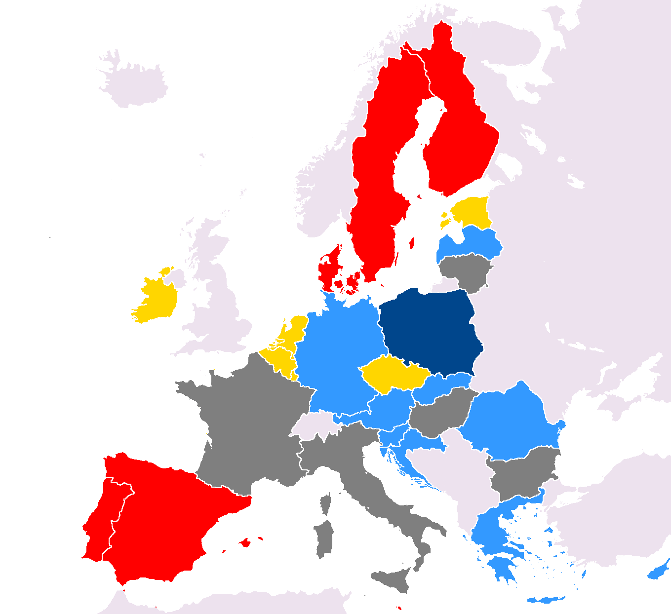 european council